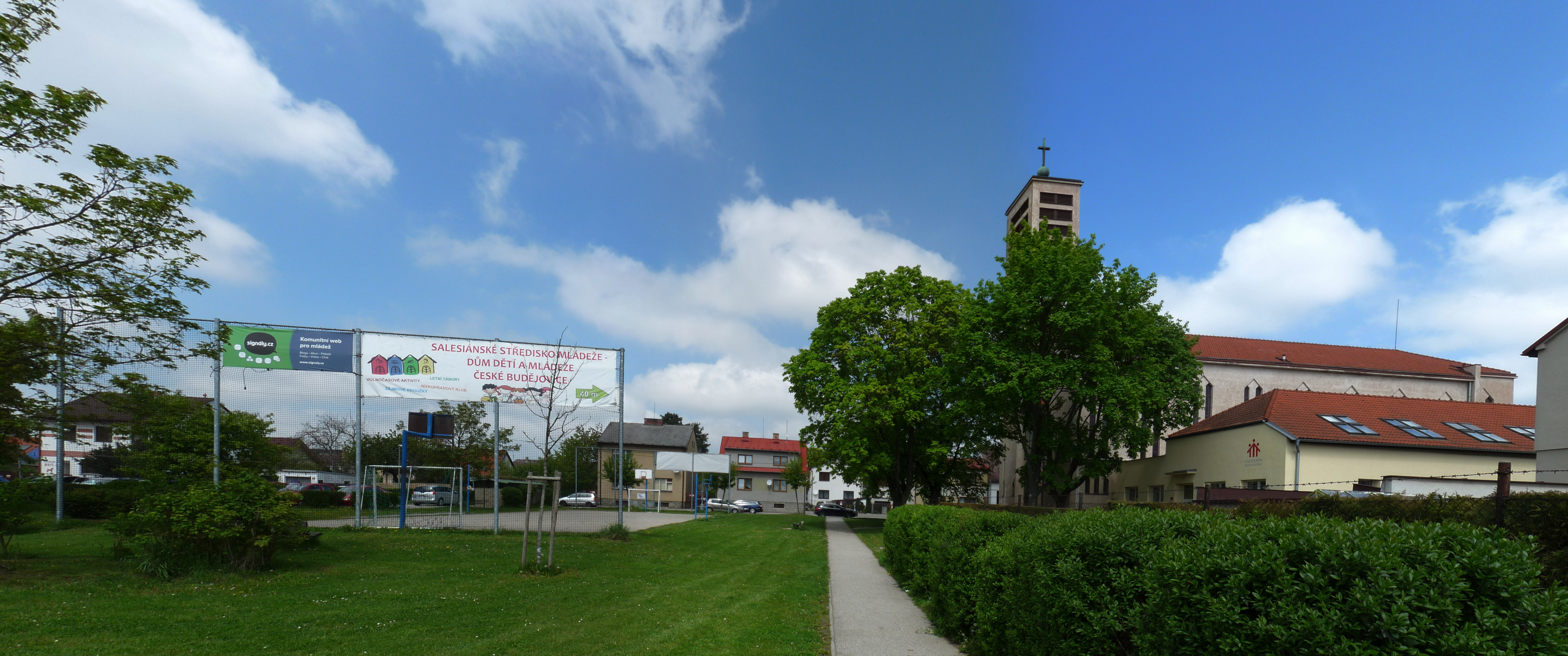 View of the Salesian Youth Centre in České Budějovice, South Bohemian Region, Czech Republic.